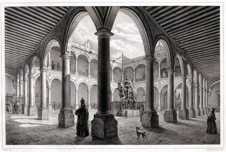 [11] Interior de la Universidad de Mexico. [below neat line] P. Gualdi Lito. Lito. frente al Correo No. 5. Within image at lower left: Gualdi.